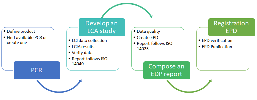 Framework for creating an Environmental Product Declaration (EPD)